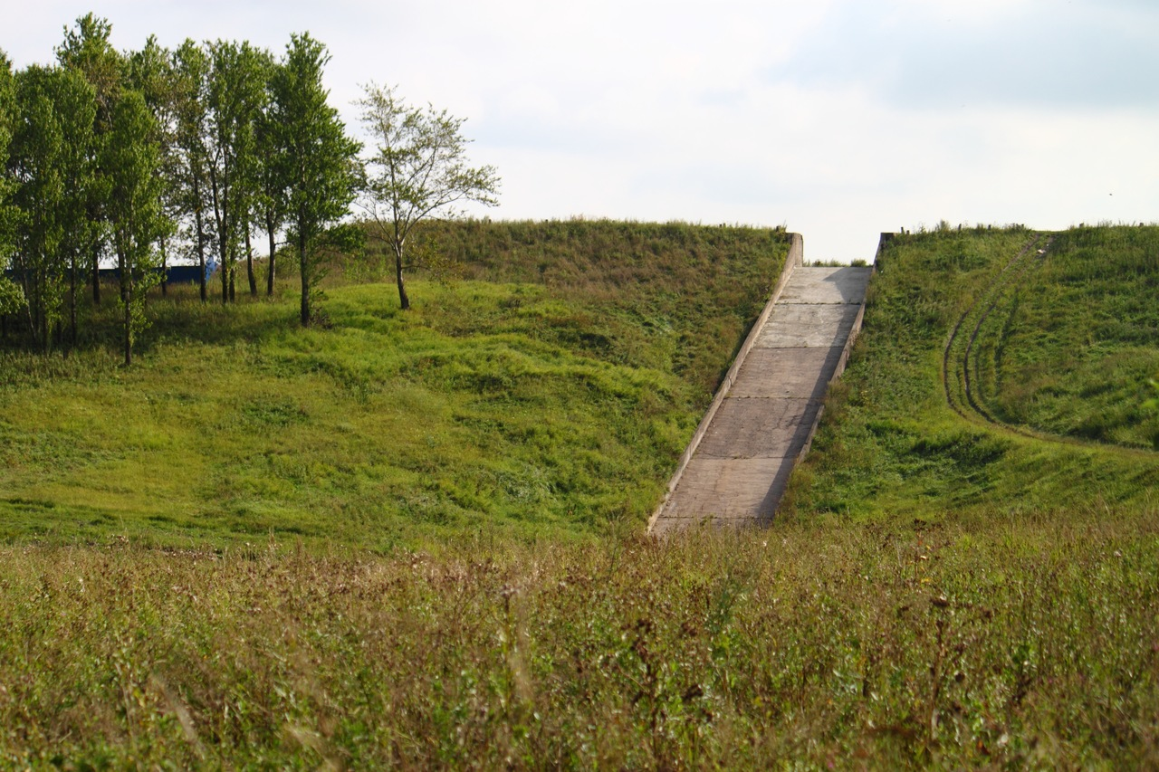 Pulkovo - area near St.Petersburg. Ingrian hills.